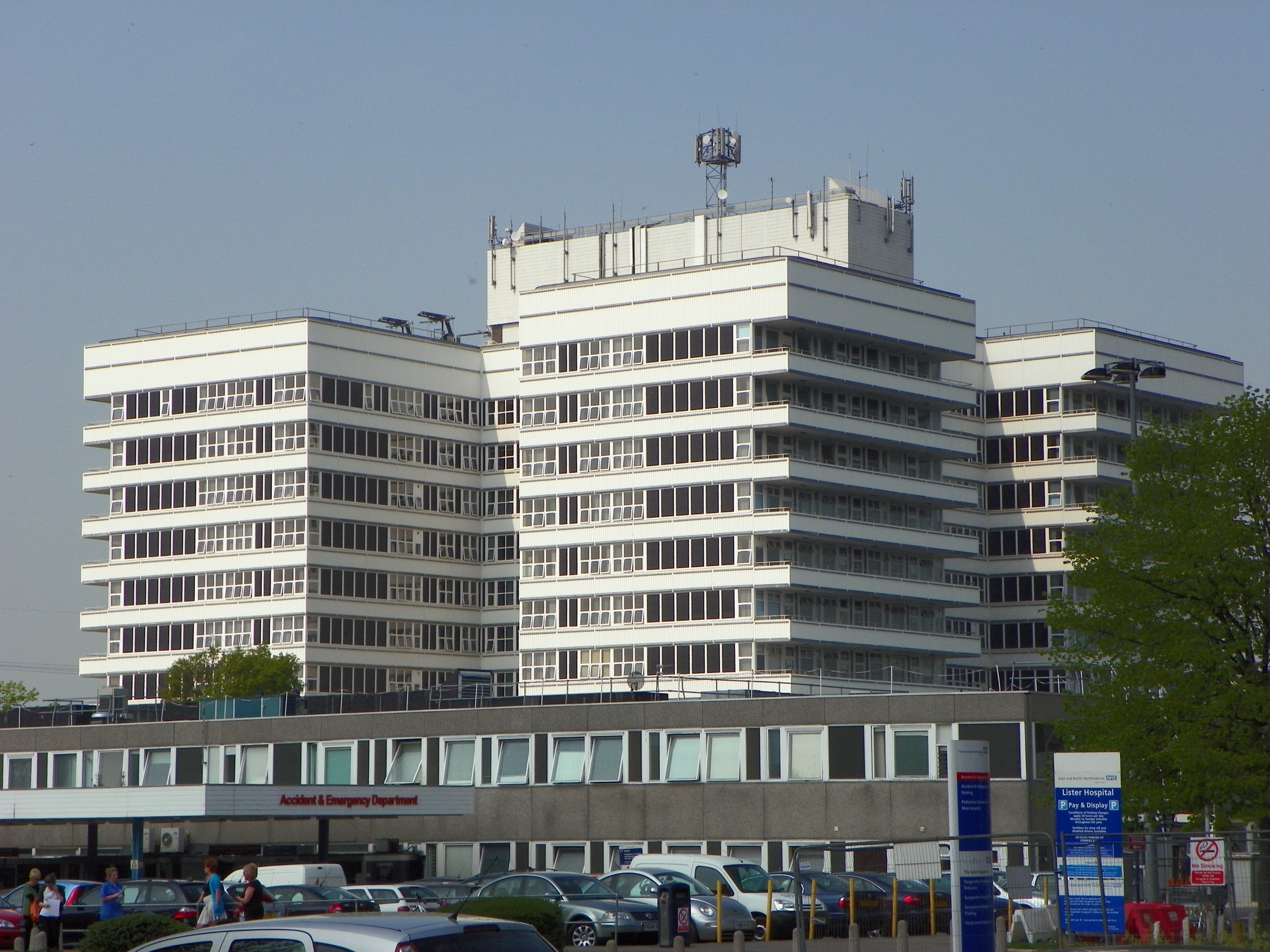 Lister Hospital, Stevenage, Hertfordshire, 19 April 2011.